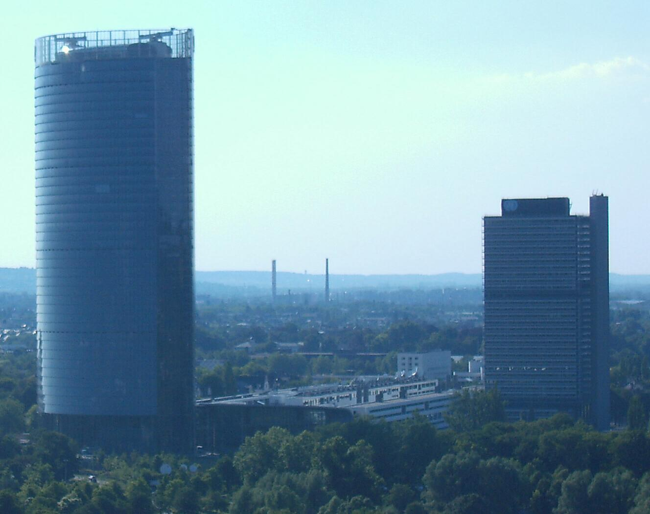 Aerial view of Post Tower, Schürmann-Bau and Langer Eugen in Bonn.